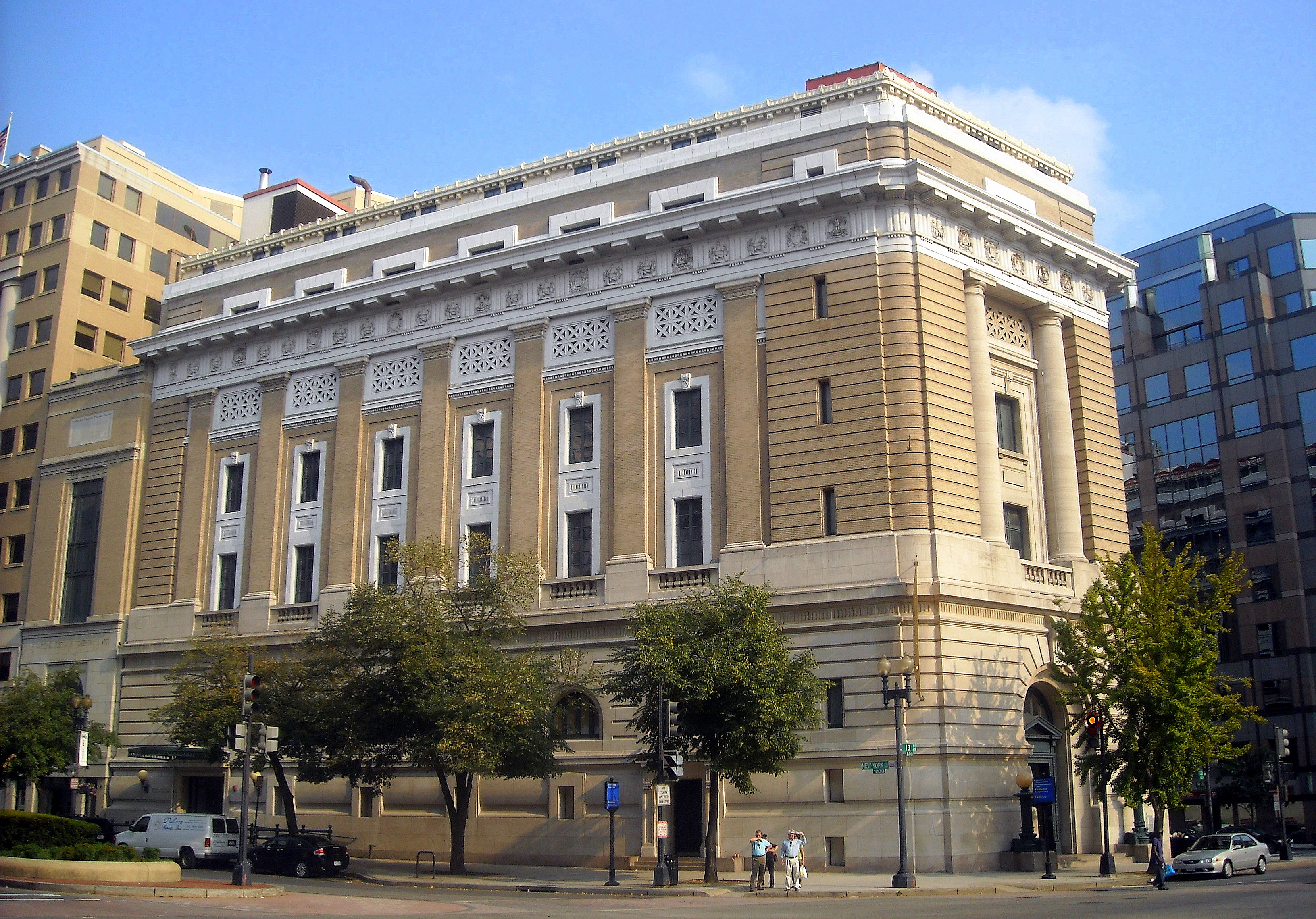 National Museum of Women in the Arts at 1250 New York Avenue, NW in Washington, D.C. The building was first used as a Masonic Temple and is listed on the National Register of Historic Places.